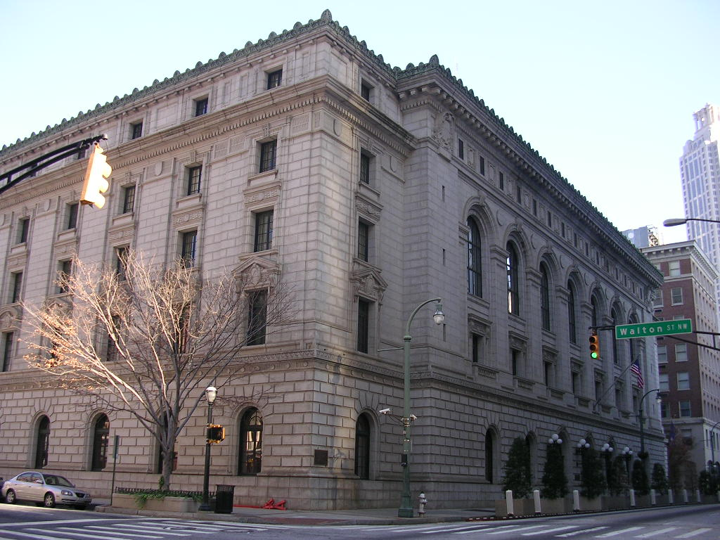 Elbert P. Tuttle U.S. Courthouse at 76 Forsyth Street, NW, Atlanta, Georgia. Constructed in 1908, it was orginally a post office, now home for the United States Court of Appeals for the Eleventh Circuit. 33°45′23″N 84°23′25″W / 33.75639°N 84.39028°W National Register of Historic Places reference #74000681. Second Renaissance Revival style.